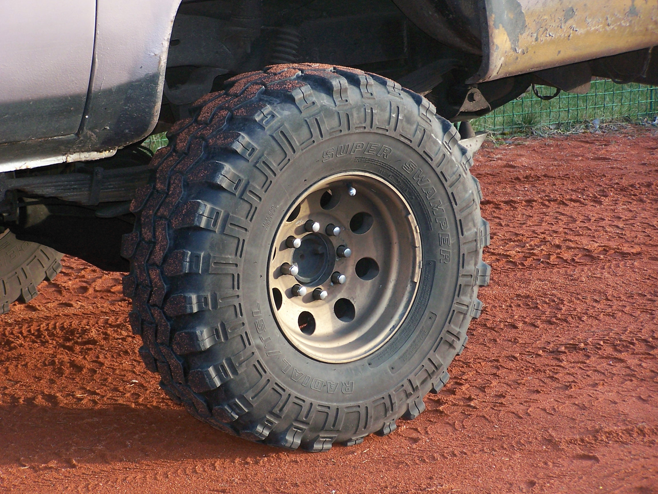 Off-road tire